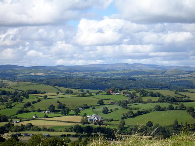 View north from Rhos Fawr. Not the clearest day of the summer but the view from up here is still stunning. The 523886 are visible in the lower left corner. In the lower centre of the photo are the farm buildings at Tŷ-brith (SJ131081) which lies beyond Afon Banwy and beside the A458. Beyond them the red roof at Henllan Fawr (SJ135087).